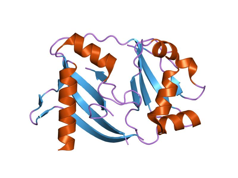 Cartoon representation of the molecular structure of protein registered with 1wj9 code.